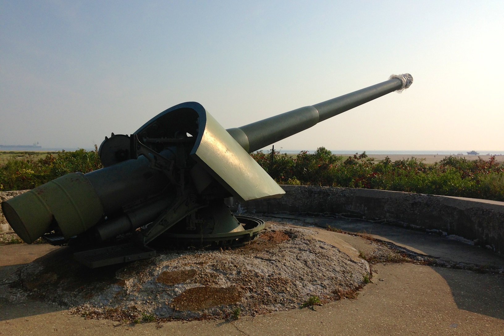 Barbette Gun at Battery Gunnison of the Fort Hancock and the Sandy Hook Proving Ground Historic District protecting New York City.